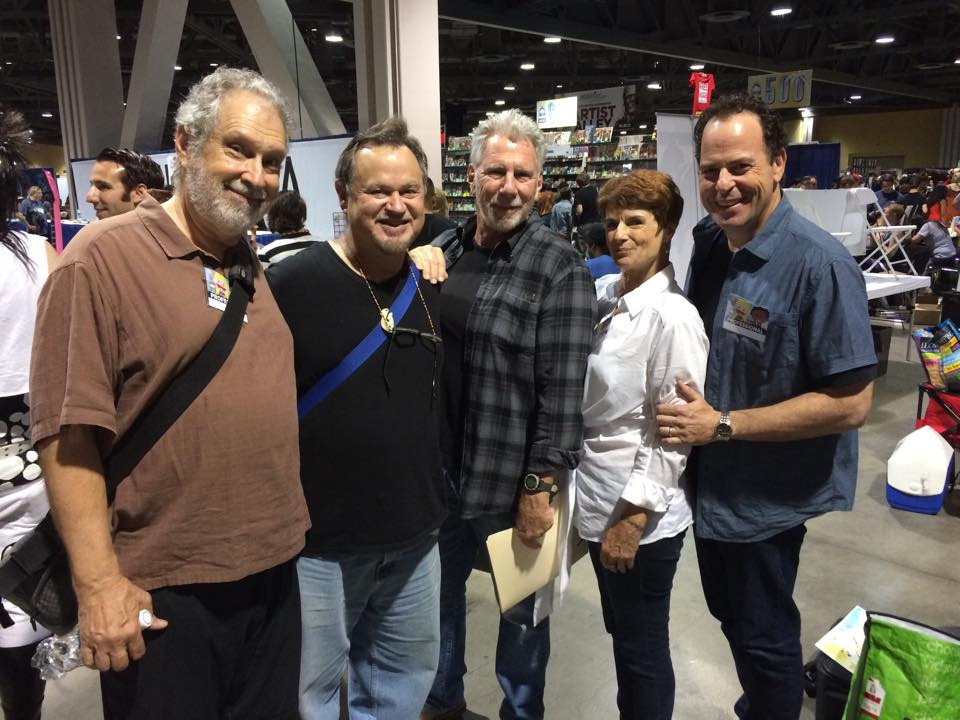 Loren Lester GI Joe Cast